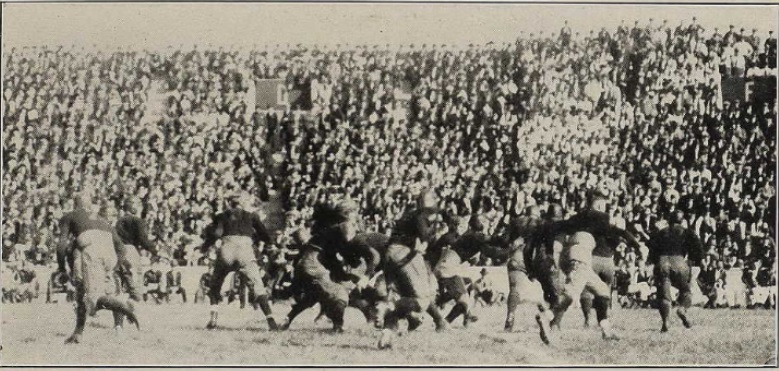 The Michigan Wolverines chasing after Vanderbilt halfback Gil Reese in 1922.